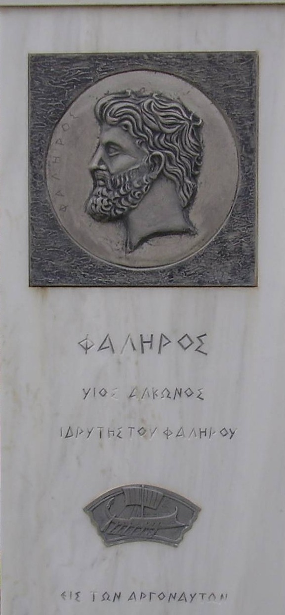 Faliros, son of Alkon, founder of Faliron, one of the Argonauts From Palaio Faliro, Greece